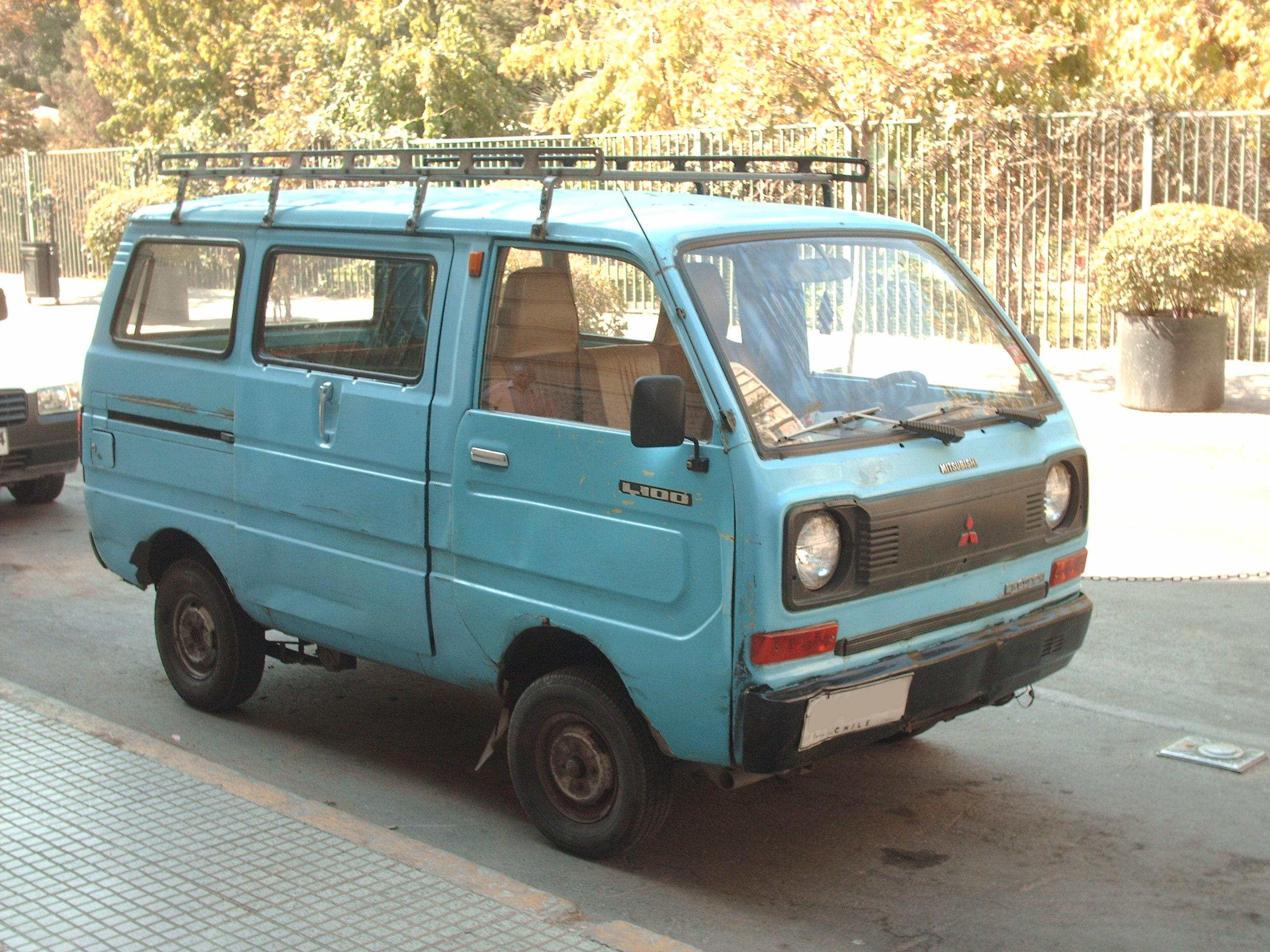 Mitsubishi L100 in Marcoleta street, Santiago, Chile.